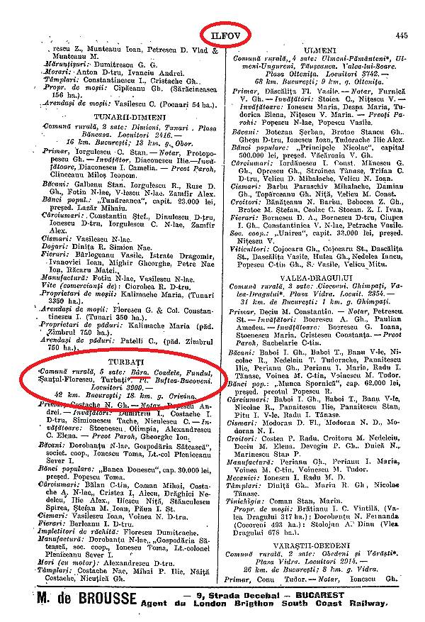 From the General Collections